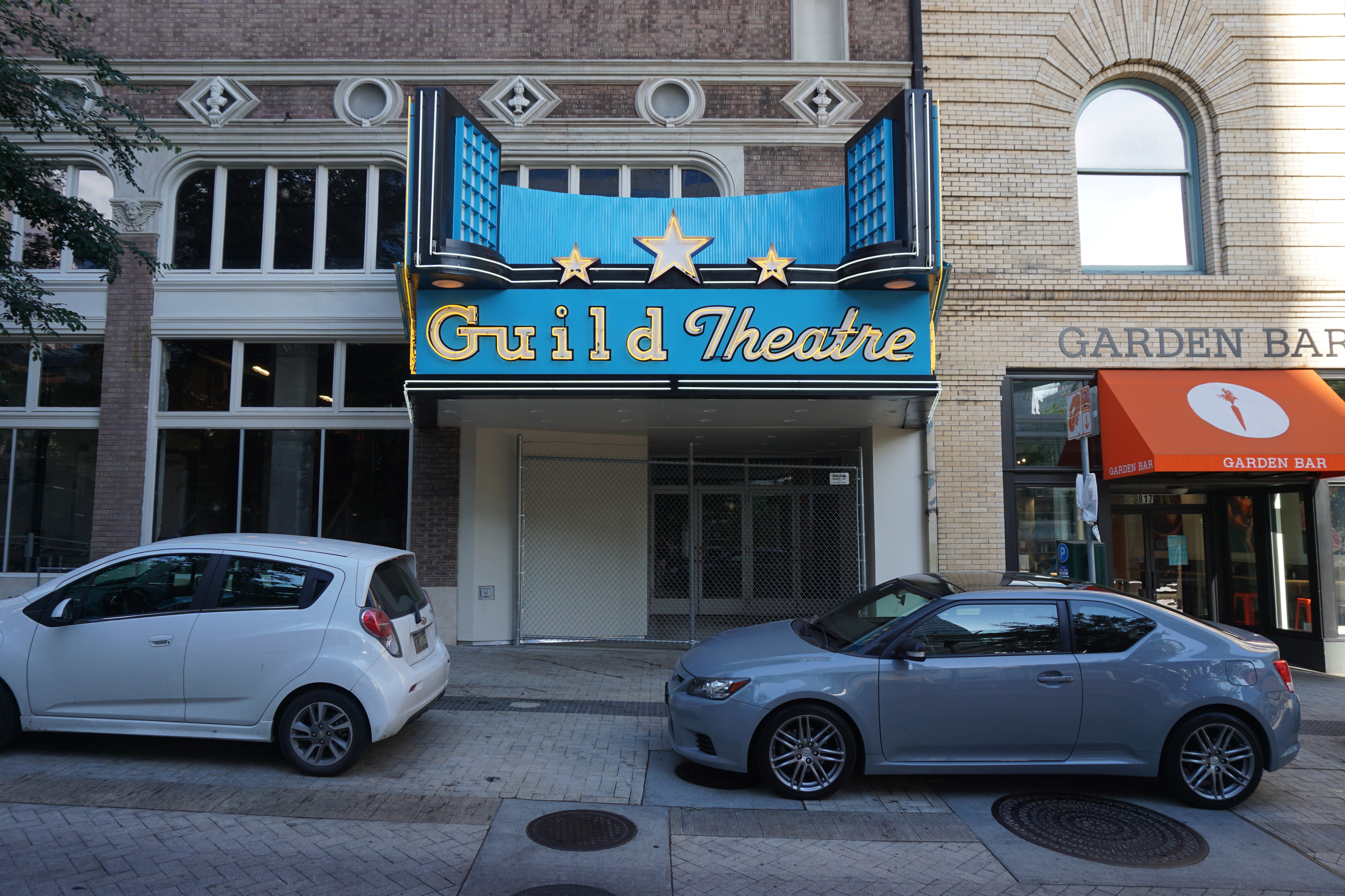 Guild Theatre in Portland, Oregon (United States).